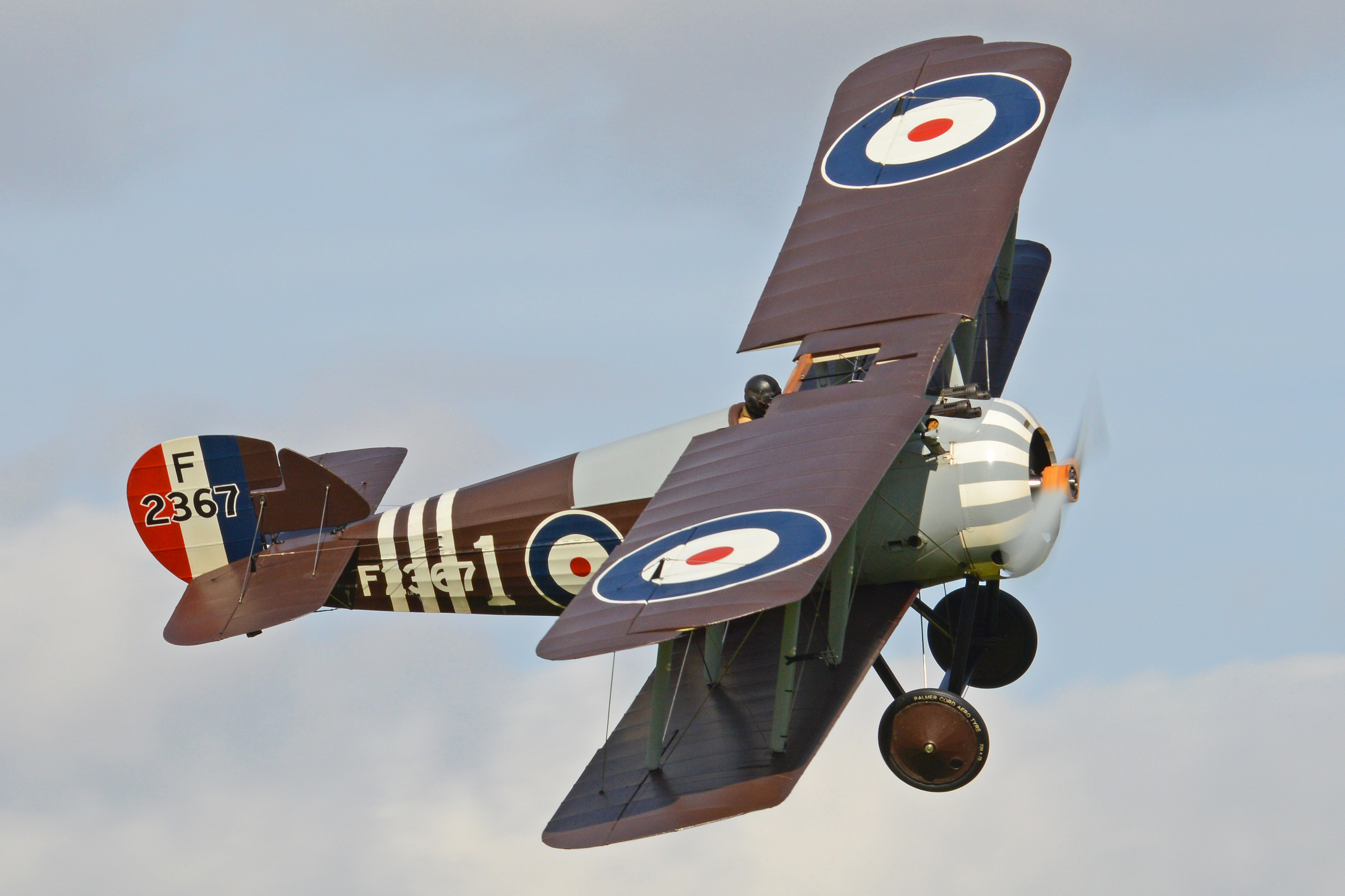 c/n 0112. Operated by the WW1 Heritage Trust, this Snipe is another gorgeous TVAL replica and is powered by a genuine Bentley BR.2. It wears the markings of 70sqn, B-flight, based at Bickendorf, Germany, March-April 1919. Seen displaying at the 2017 Edwardian Pageant, Old Warden, Bedfordshire, UK. 6th August 2017